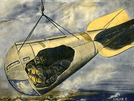 Aerial lookout in an observatory car suspended from a Zeppelin airship. Extracted from Scientific American's front cover illustration 23 December 1916.